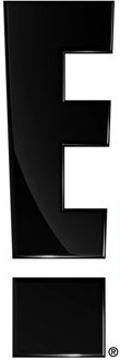 Network logo for E!